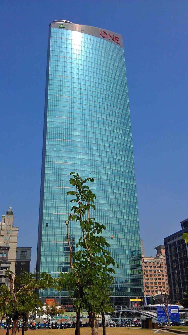 Shr-Hwa International Tower, Taichung City, Taiwan